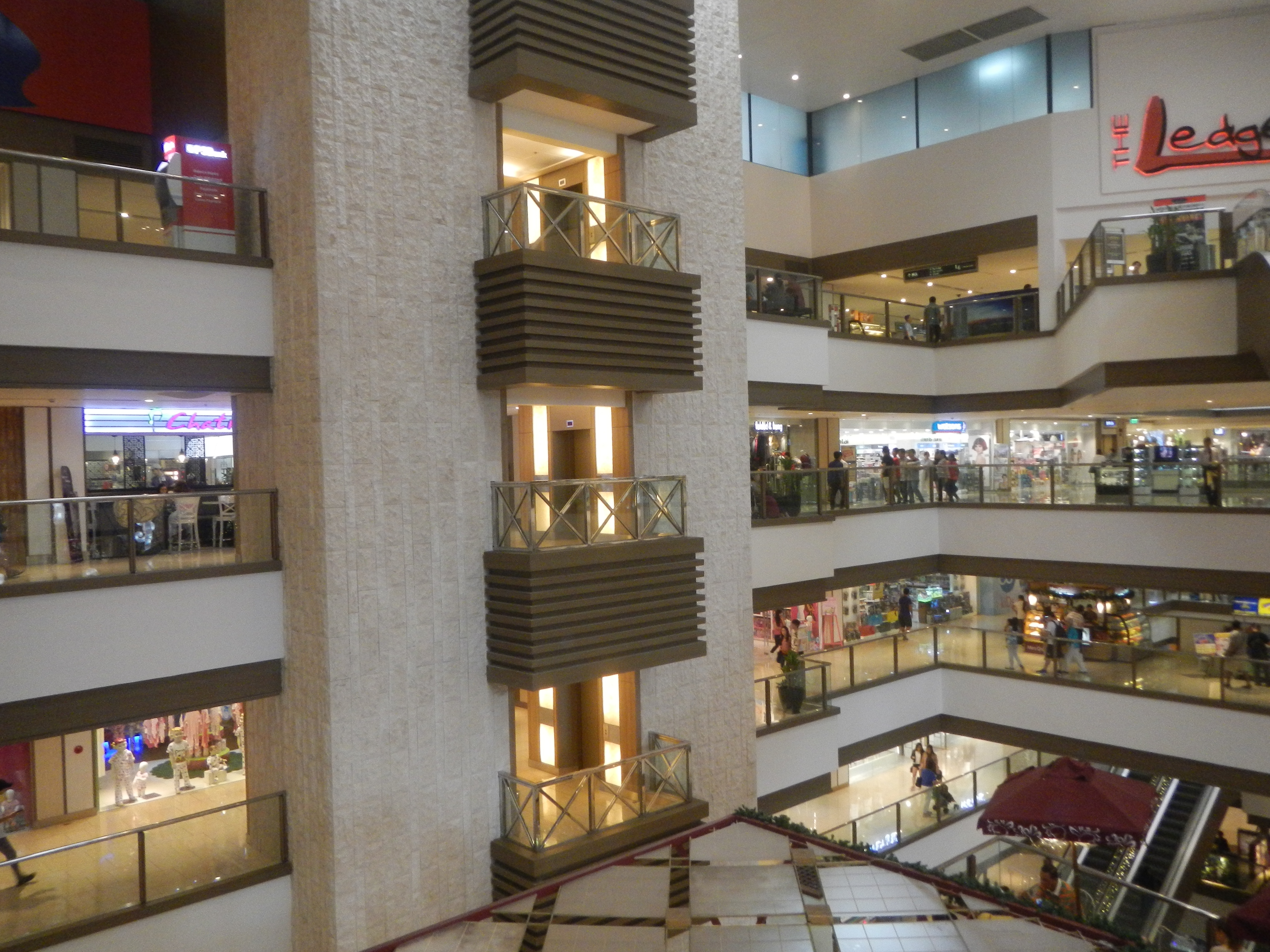 Korea’s Products on display at Shangri-La Korean Ambassador Kim Jae Shin Korean Royal Heritage Saint Padre Pio Chapel (Shangri-La Plaza) Shangri-La Plaza (Mandaluyong) 14°34'52"N 121°3'18"E Shangri-La Plaza Mandaluyong City Epifanio de los Santos Avenue (EDSA) (C-4) 14°34'40"N 121°3'3"E (Note: Judge Florentino Floro, the owner, to repeat, Donor Florentino Floro of all these photos hereby donate gratuitously, freely and unconditionally all these photos to and for Wikimedia Commons, exclusively, for public use of the public domain, and again without any condition whatsoever).